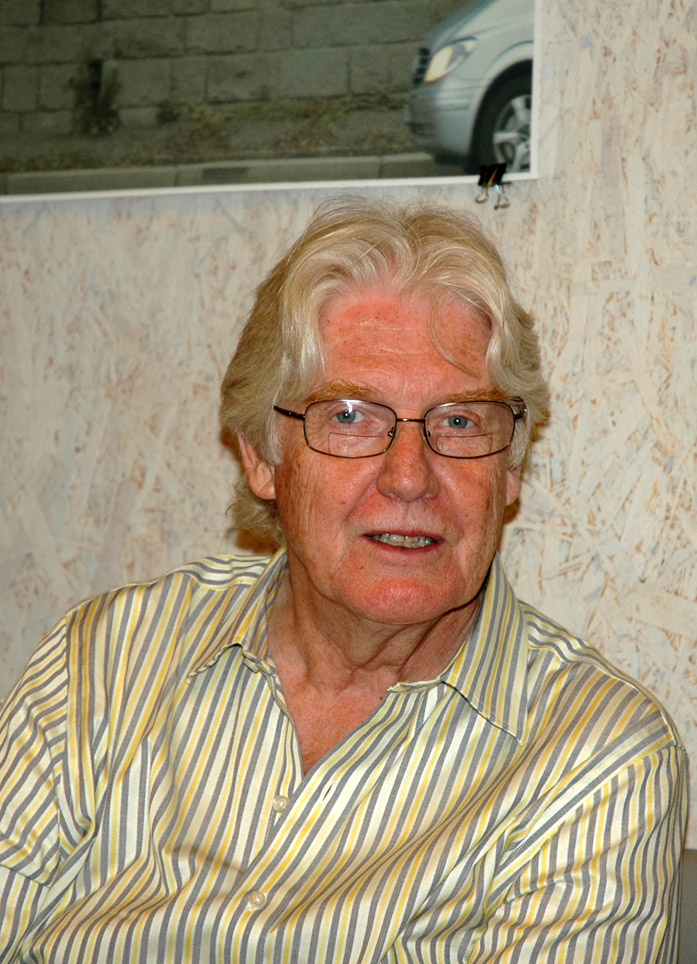 Paul Wilson, Canadian translator, formerly Czech underground group The Plastic People of the Universe